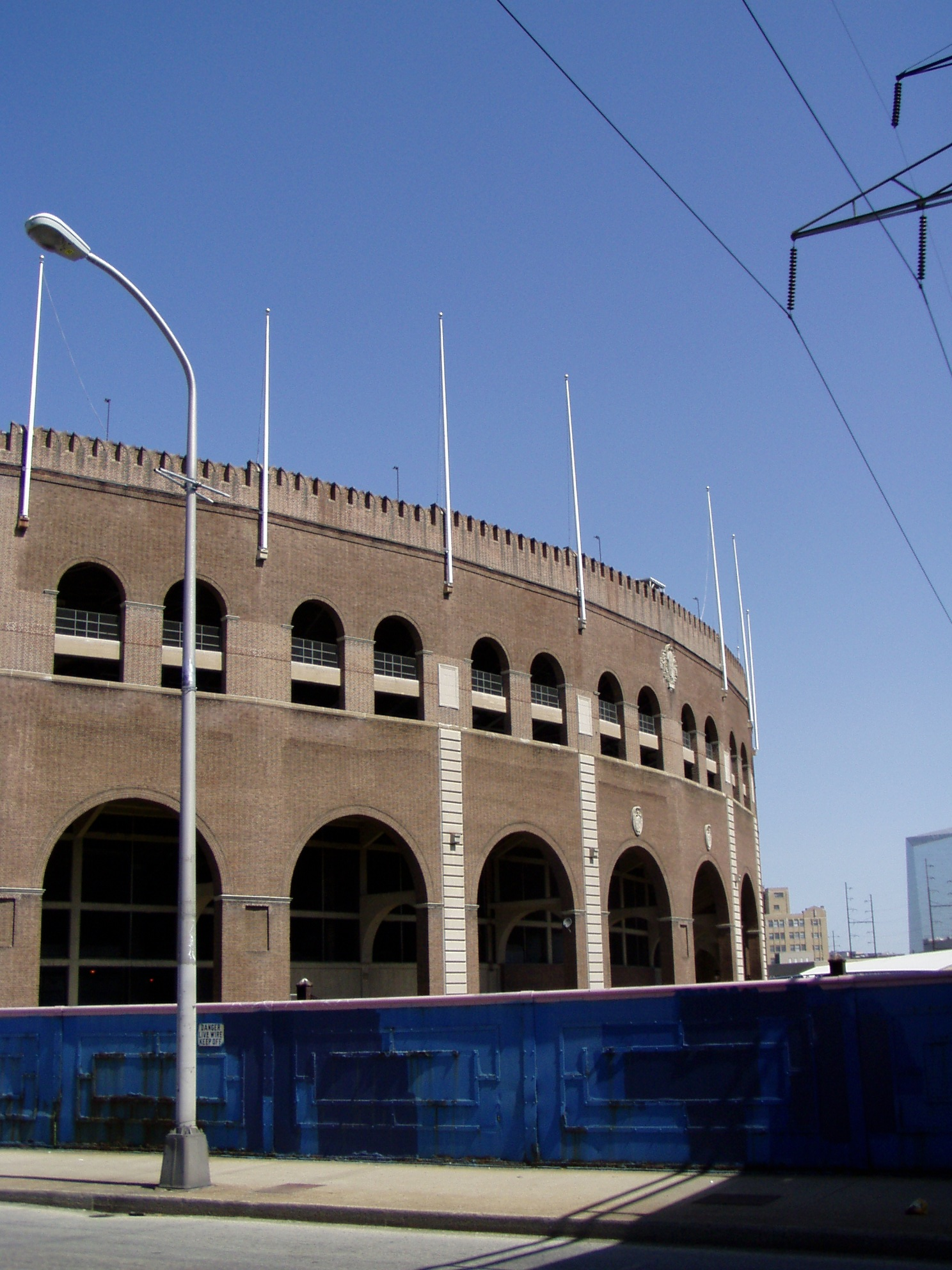 Taken in Philadelphia, Pennsylvania, in April 2006. The eastern face of Franklin Field, stadium of the University of Pennsylvania.